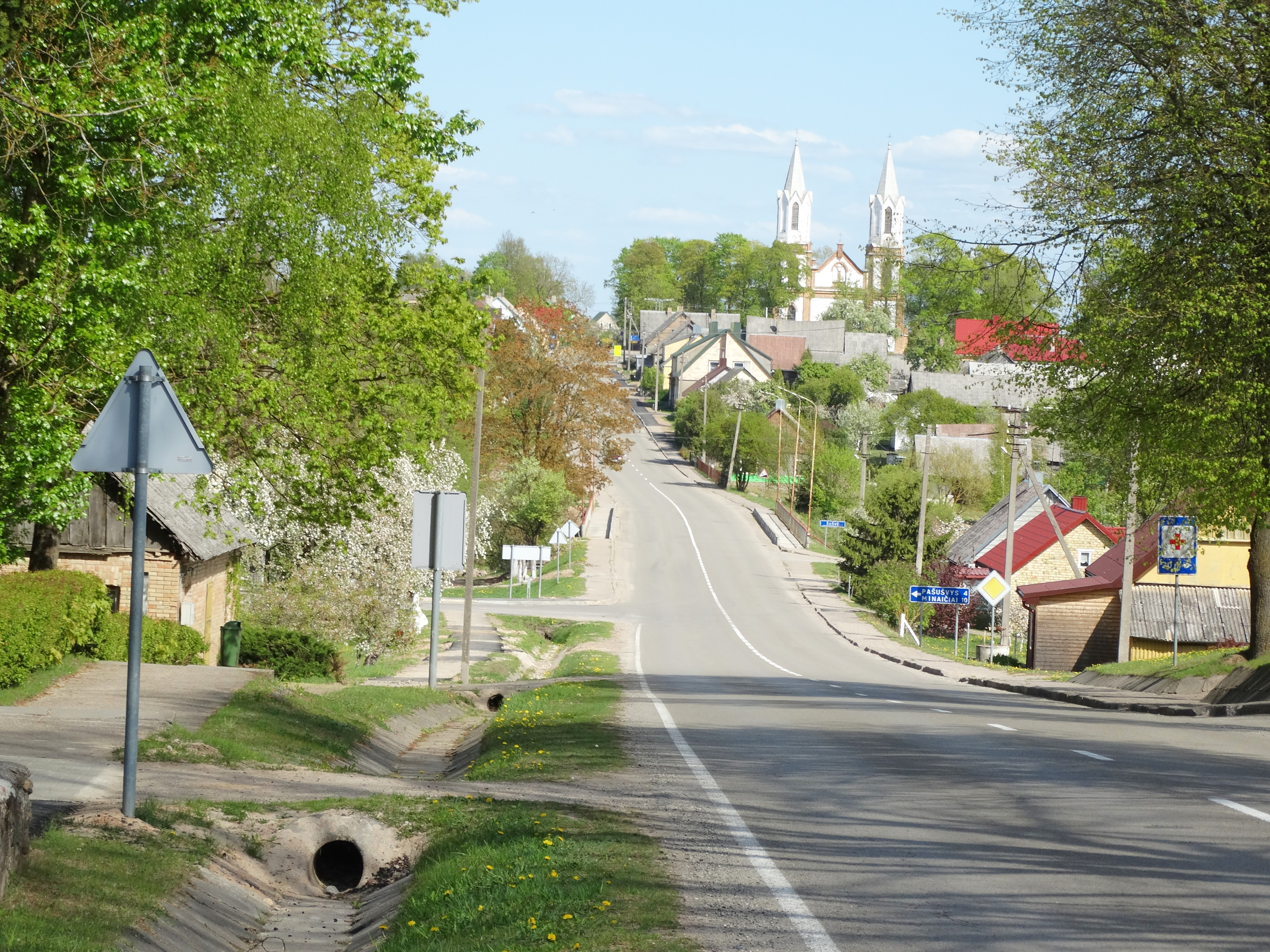 Grinkiškis, Radviliškis District, Lithuania